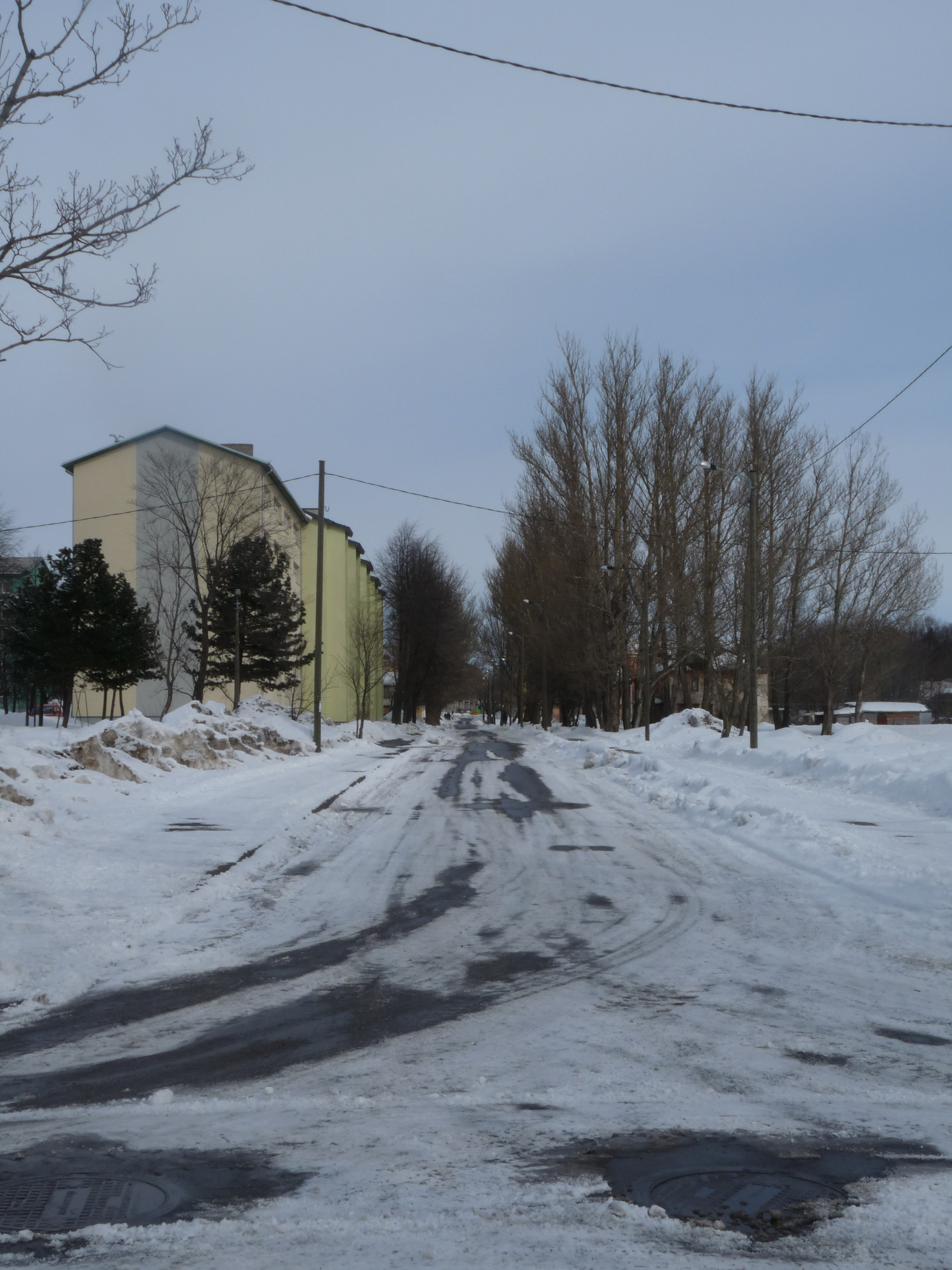 Vasara street in Tallinn. You can also see slums walking this street.